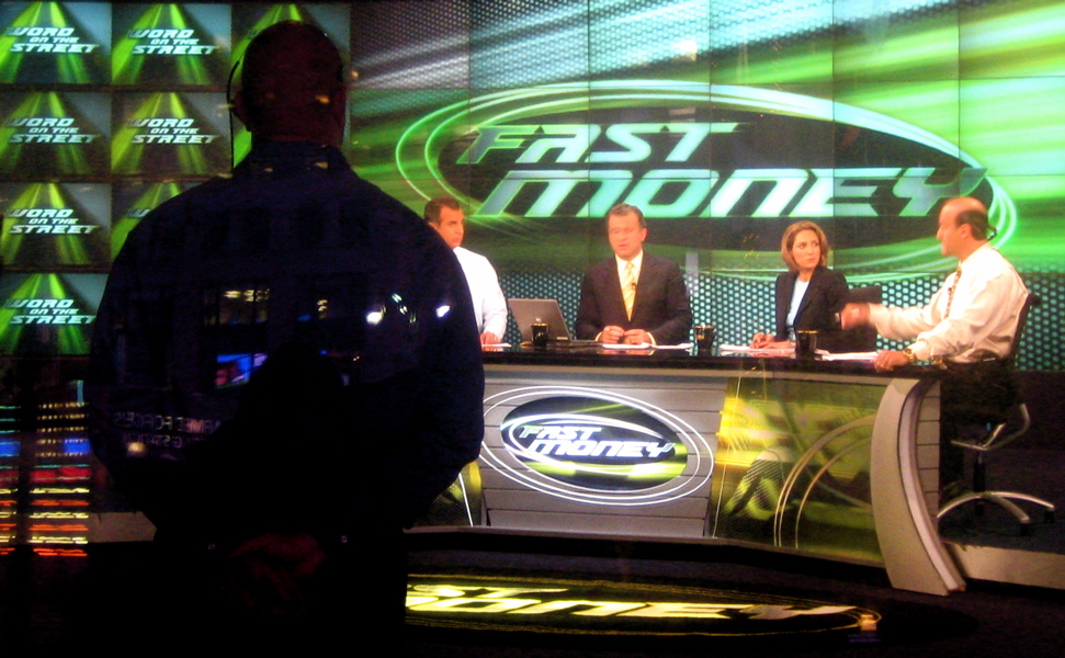 CNBC's Fast Money team: (from the left) Guy Adami, Dylan Ratigan (host), Karen Finerman, and Pete NajarianOn the Air